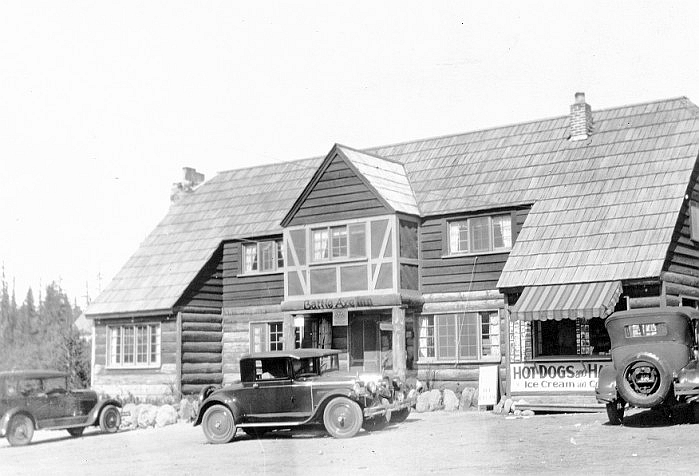 Original Collection: Gerald W. Williams Collection Item Number: WilliamsG:MHNF You can find this image by searching for the item number by clicking here. Want more? You can find more digital resources online. We're happy for you to share this digital image within the spirit of The Commons; however, certain restrictions on high quality reproductions of the original physical version may apply. To read more about what “no known restrictions” means, please visit the Special Collections & Archives website, or contact staff at the OSU Special Collections & Archives Research Center for details.